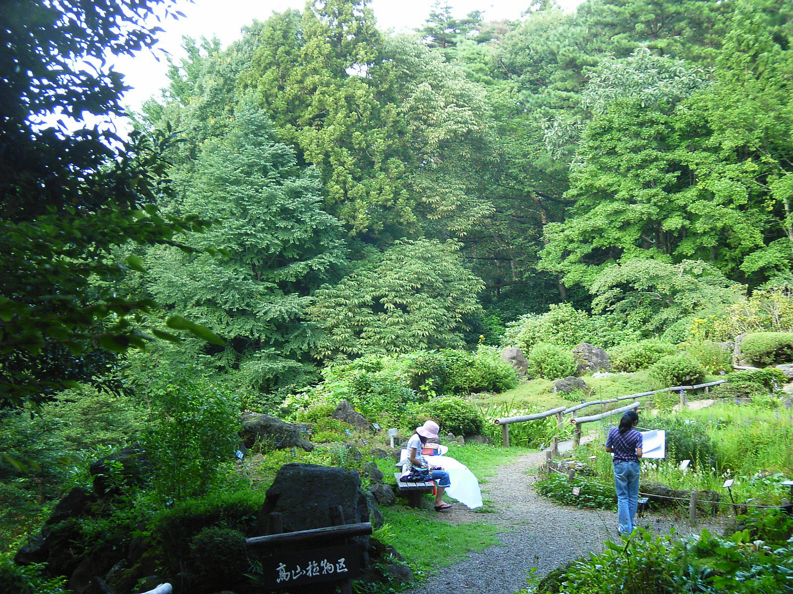 Sendai City Grass Garden. Sendai, Miyagi prefecture, Japan.